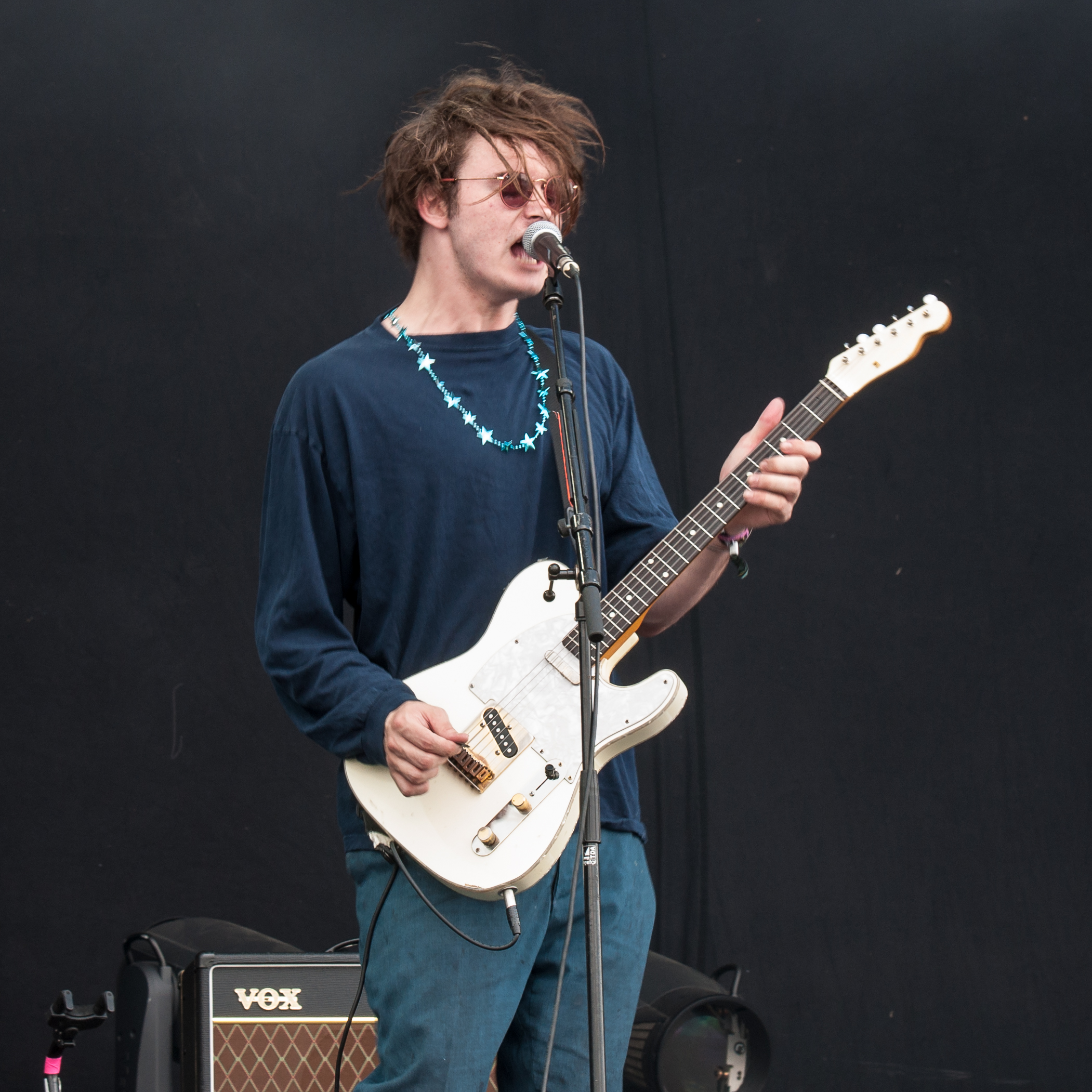 Palma Violets, Alexander Jesson at Rock am Ring 2013